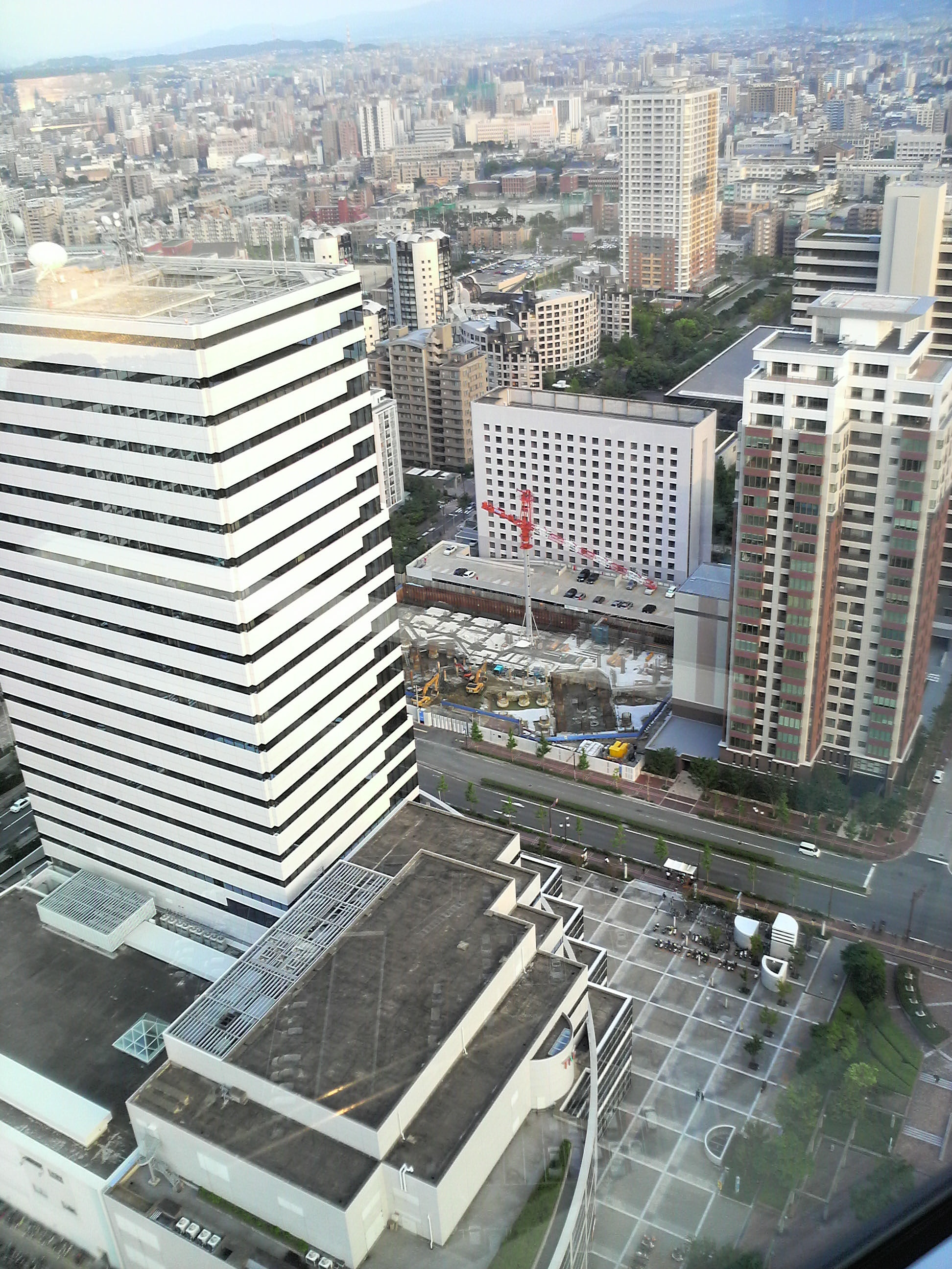 Fukuoka city Panorama from Fukuoka Tower.